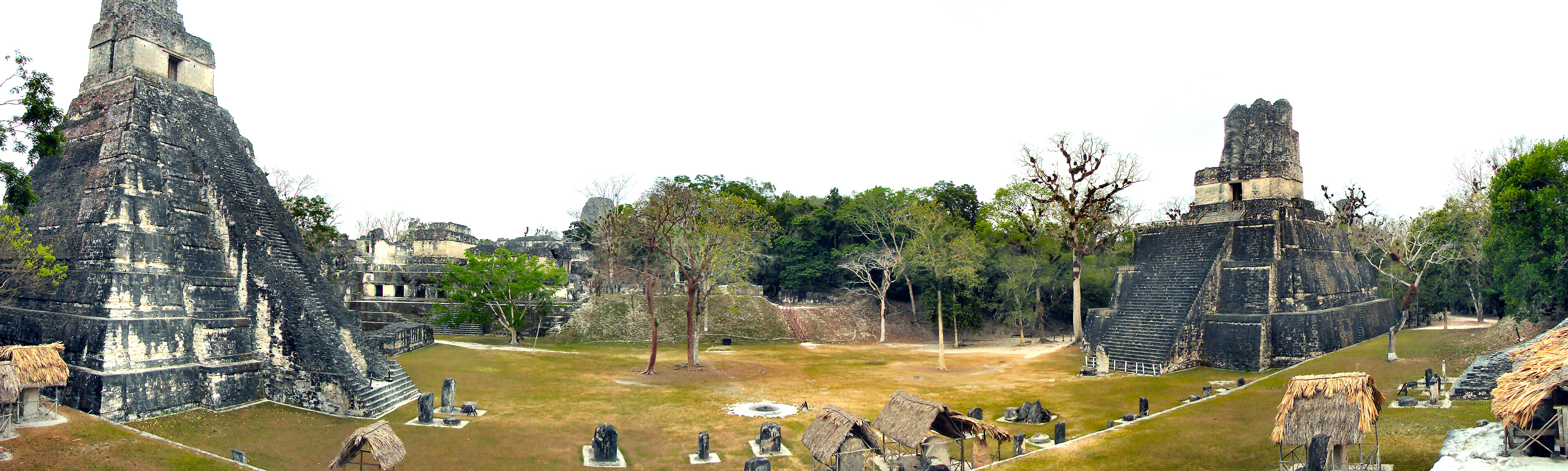 Plaza Mayor in Tikal, Guatemala. The angle is sort of disorienting, as these two temples (44 and 38 metres tall), The Temple of the Great Jaguar and The Temple of the Masks, face each other straight on.